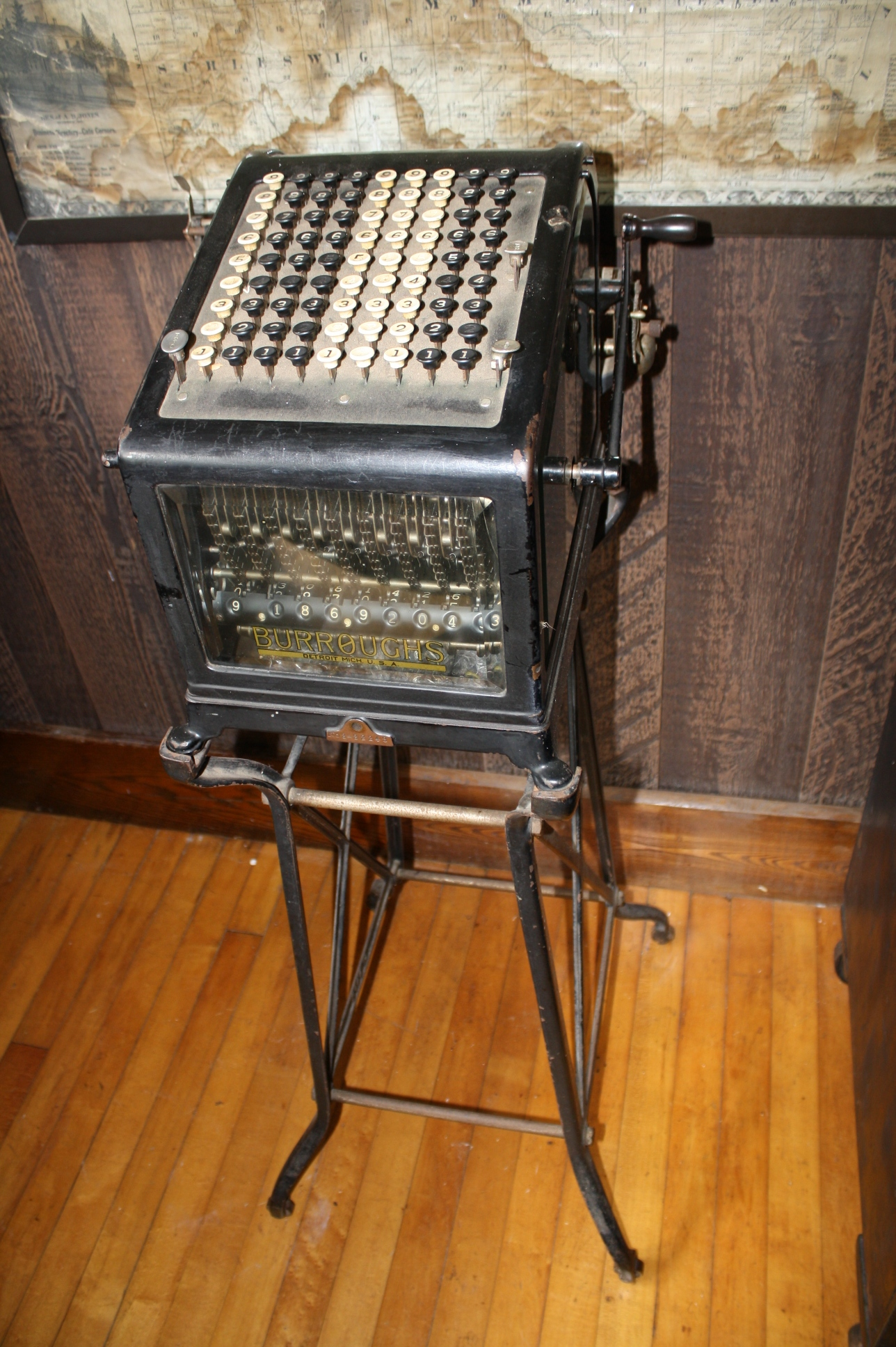 An adding machine made by Burroughs Corporation on display at a historical museum.